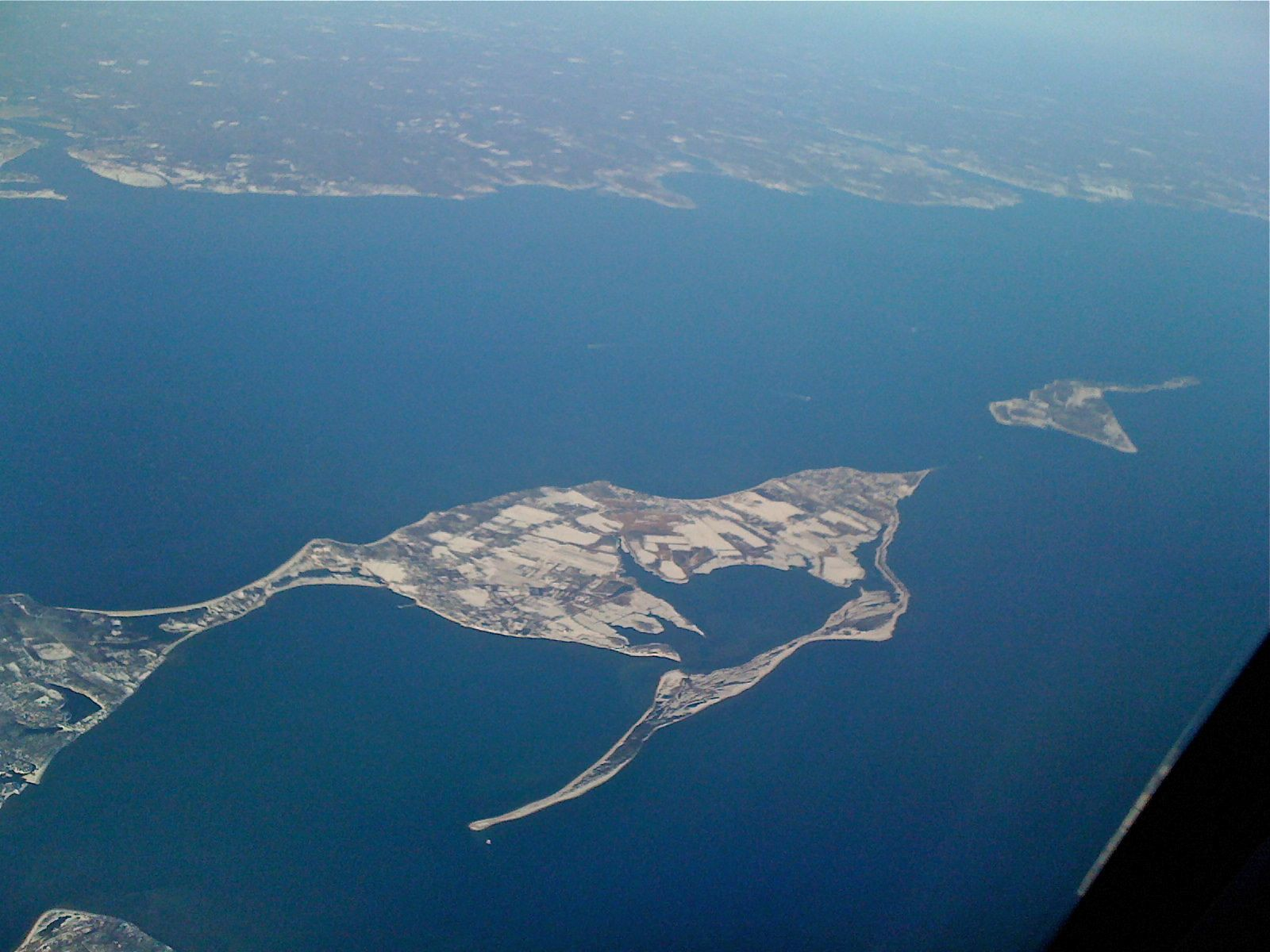 Dodgy iPhone out-of-plane-window shot of one upper corner of Long Island. Above, Long Island Sound. To the right, Block Island Sound. In the foreground is Orient Point.